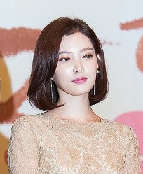 Lim Ju-eun at "Uncontrollably Fond" press conference, 4 July 2016